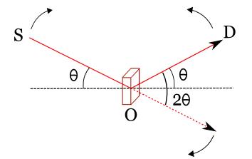 x-ray diffraction in transmission geometry, simple view